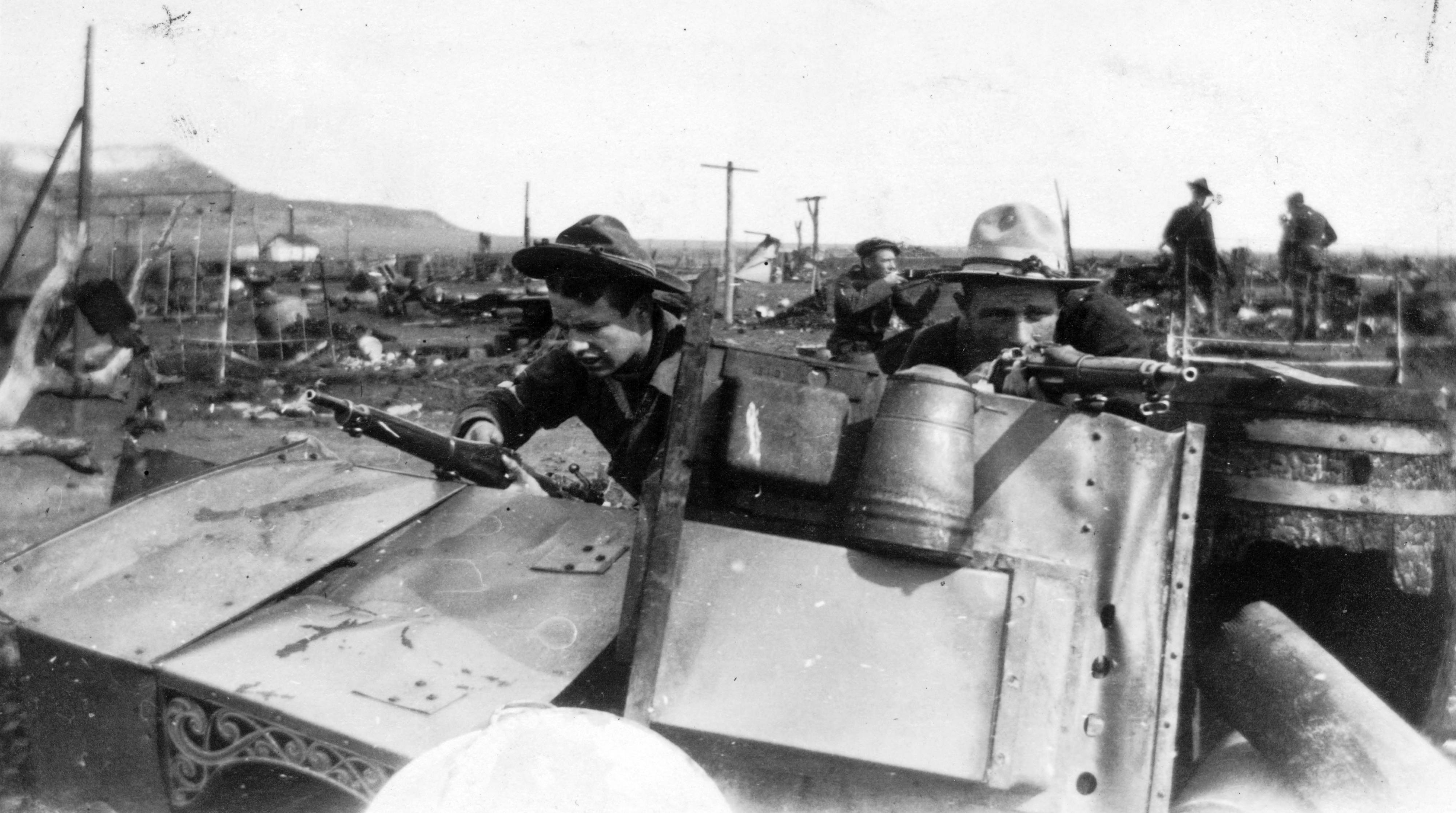 From: Credit:Western History/Genealogy Department, Denver Public Library. DPL claims rights to this image but encourages reproduction that qualifies as fair use, including for educational purposes. Summary from LOC: SUMMARY Members of the Colorado National Guard, called in to suppress the UMW strike against CF&I, pose with their rifles drawn in the destroyed miners' camp near Ludlow, Las Animas County, Colorado. Date:1914